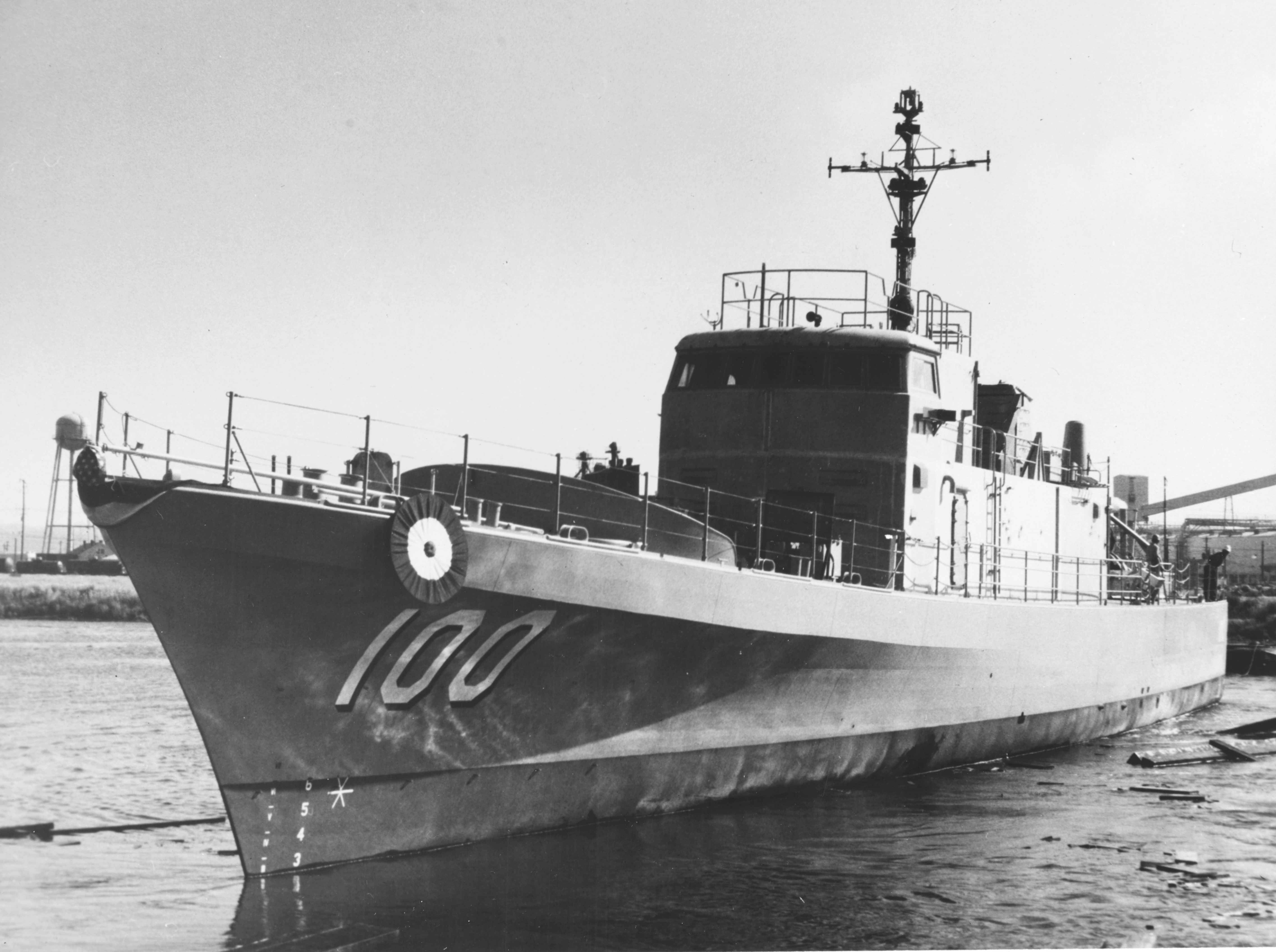 The U.S. Navy patrol gunboat USS Douglas (PG-100) just after launch at the Tacoma Boatbuilding Company, Tacoma, Washington (USA), 19 June 1970.